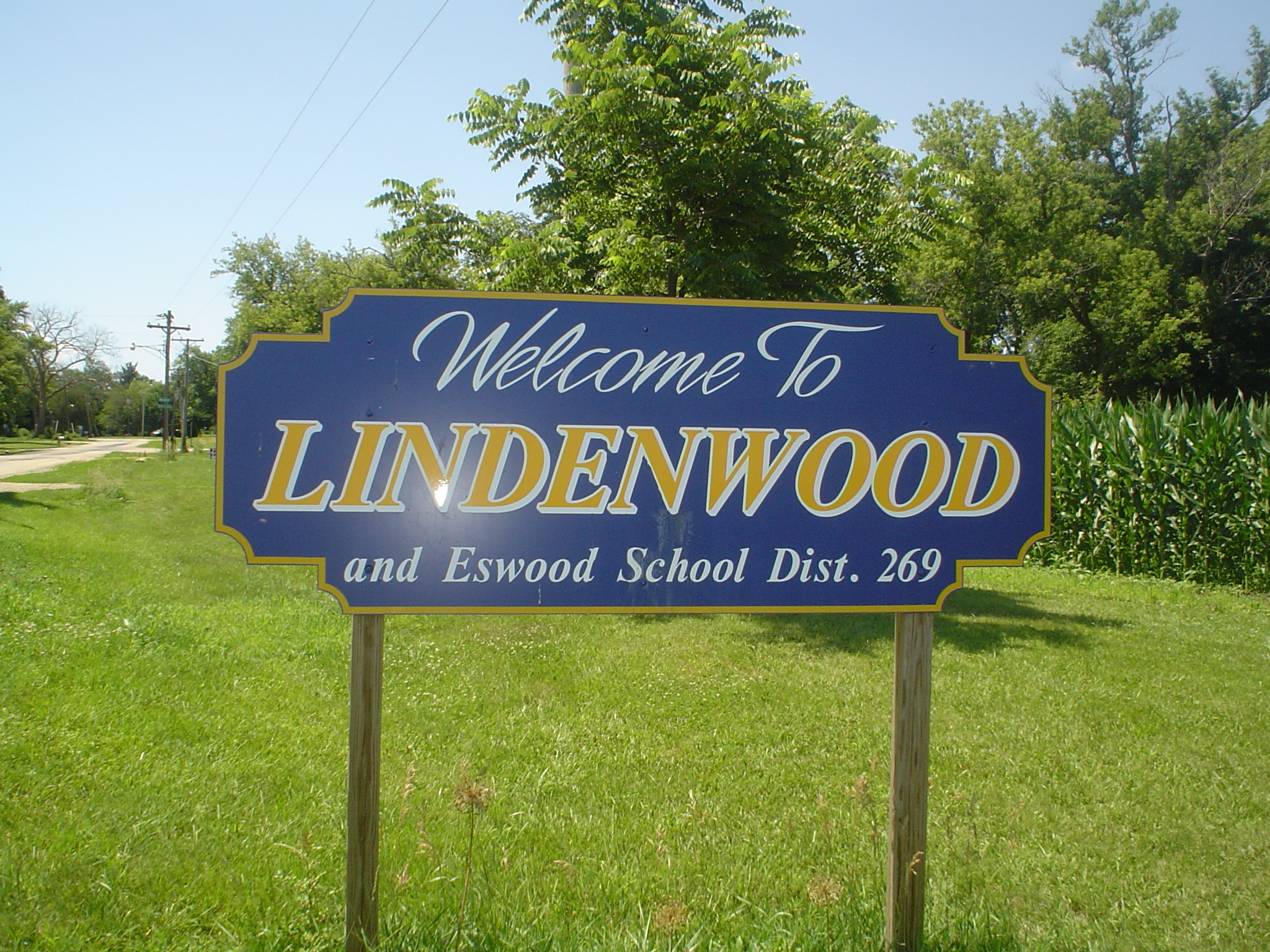 Sign leading into Lindenwood, Illinois, USA from the east.